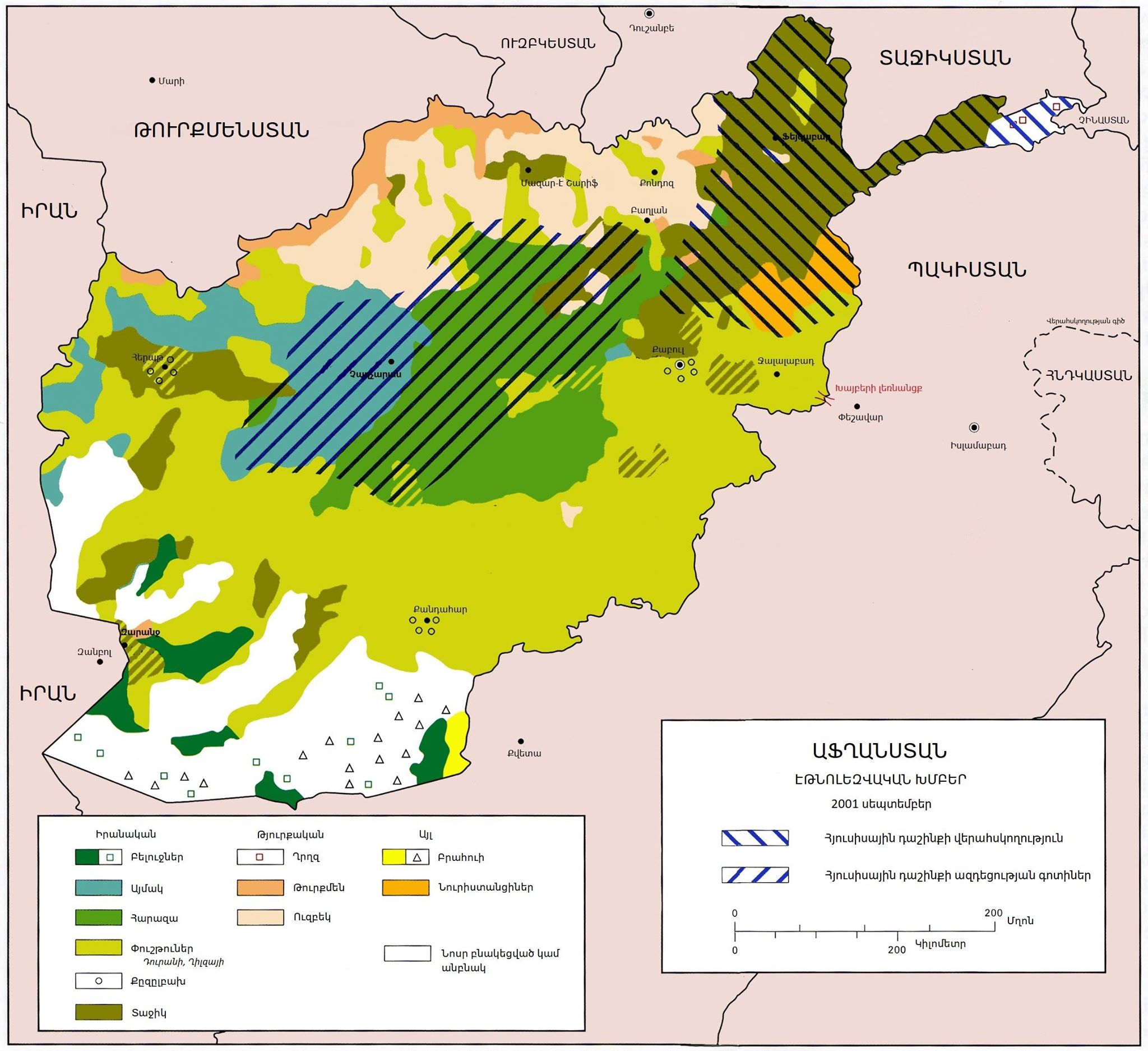 Ethnolinguistic groups in Afghanistan